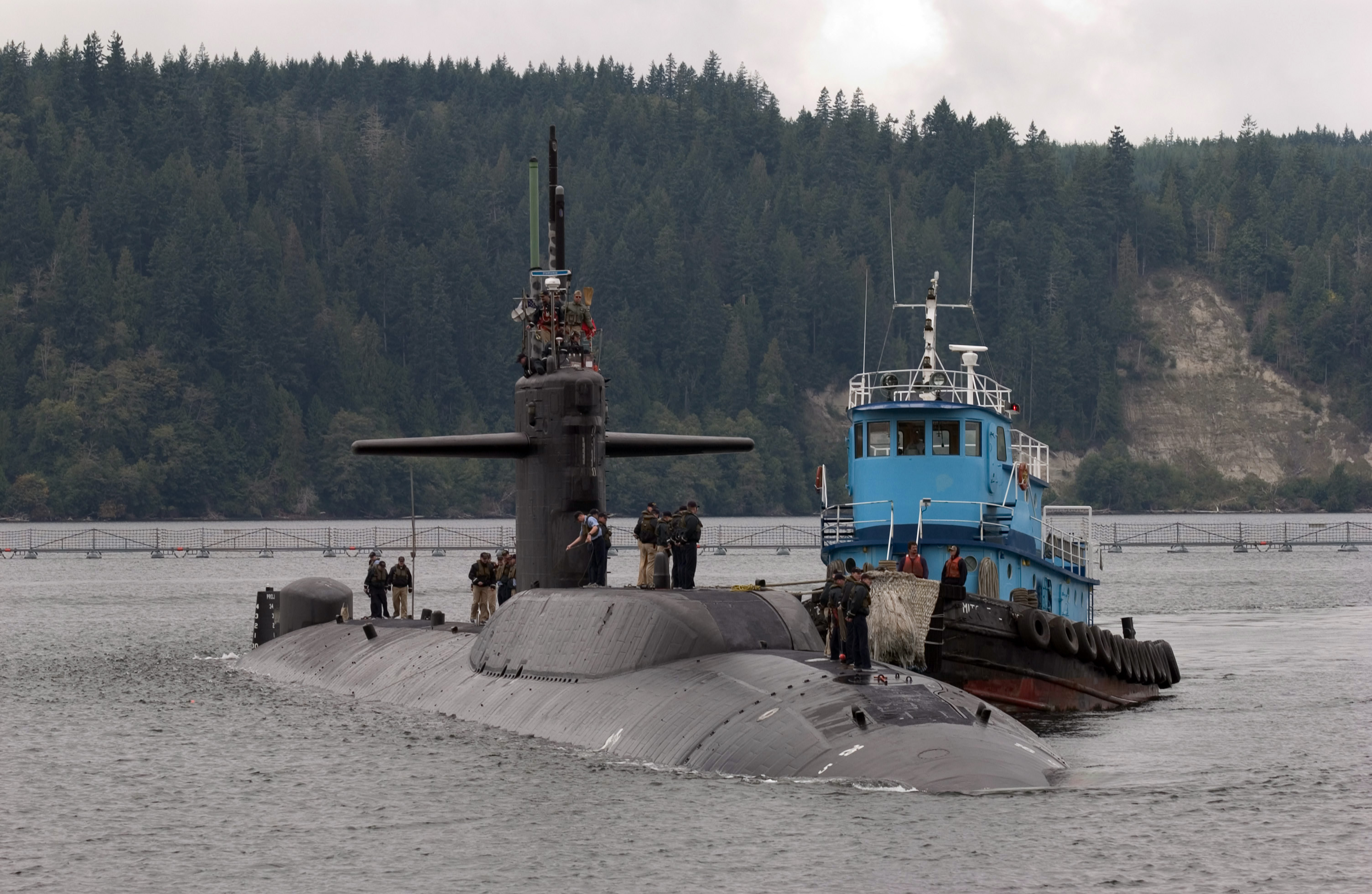 Naval Base Kitsap, Wash. (Sept. 20, 2004) - The attack submarine USS Parche (SSN 683) returns to port for the final time at the Marginal pier at Naval Base Kitsap, Wash. Parche, the last active Sturgeon-class attack submarine, is due to be decommissioned on October 19, 2004 after serving the fleet since 1973. Parche was configured for research and development from 1987-1991 and was used primary for intelligence gathering and underwater salvage. U.S. Navy photo by Brian Nokell (RELEASED)